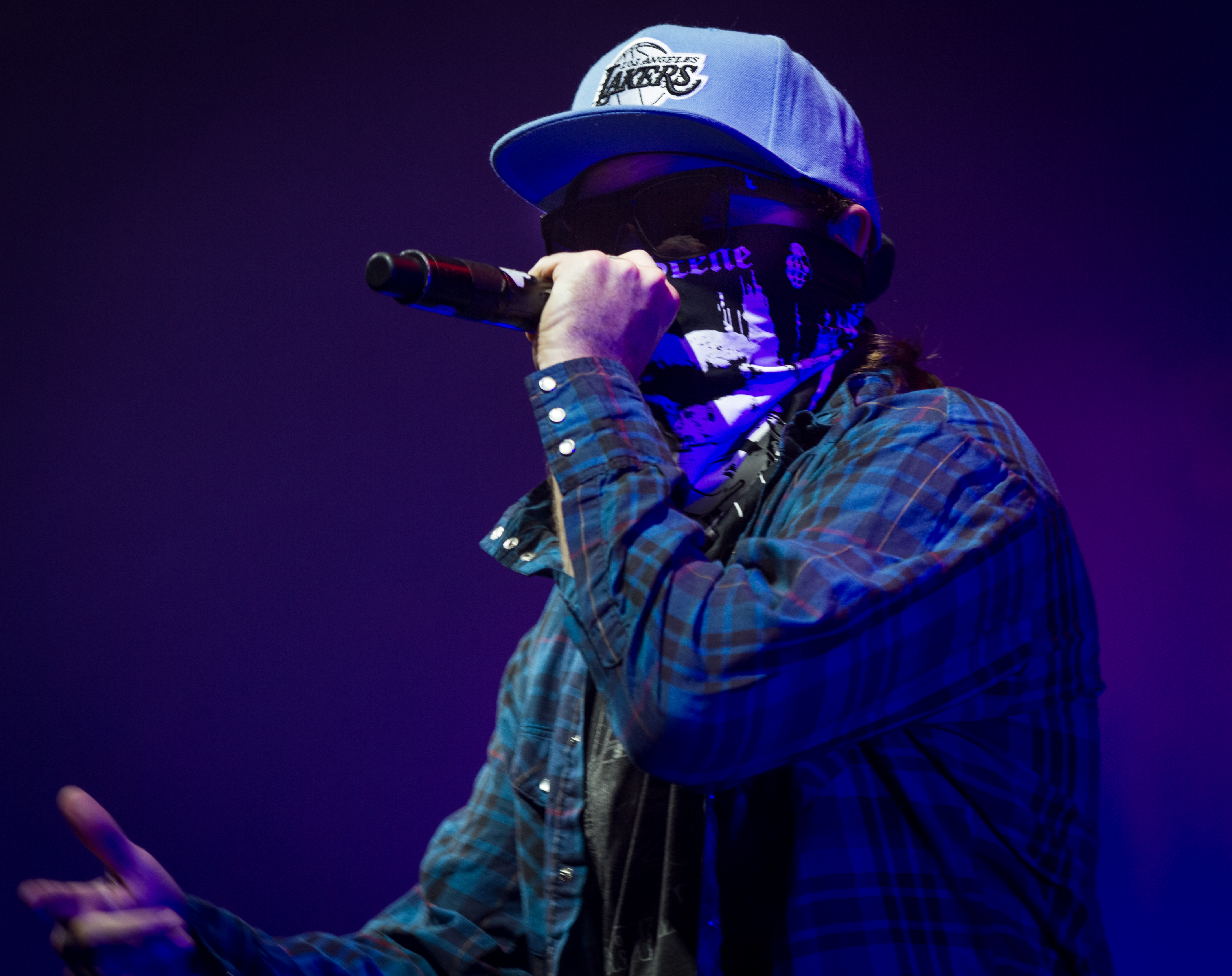 Hollywood Undead - Rock am Ring 2015